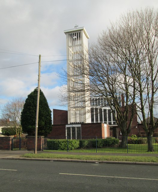 Catholic Church of St Nicholas & Our Lady of Good Counsel - Oakwood Lane